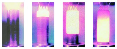 If the reactants, intermediates, and products are all solids, it is known as a solid flame